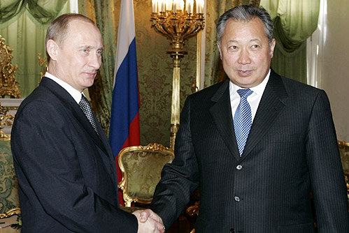 Russian President Vladimir Putin and Kyrgyz President Kurmanbek Bakiev